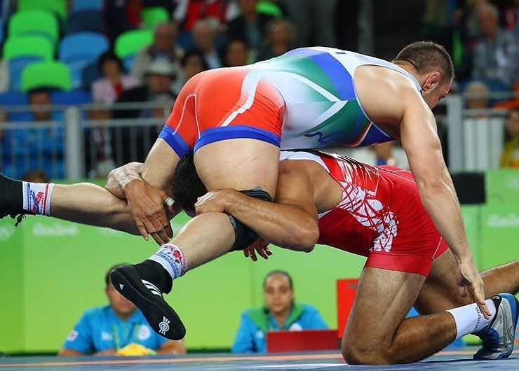 2016 Summer Olympics, Men's Freestyle Wrestling 125 kg final